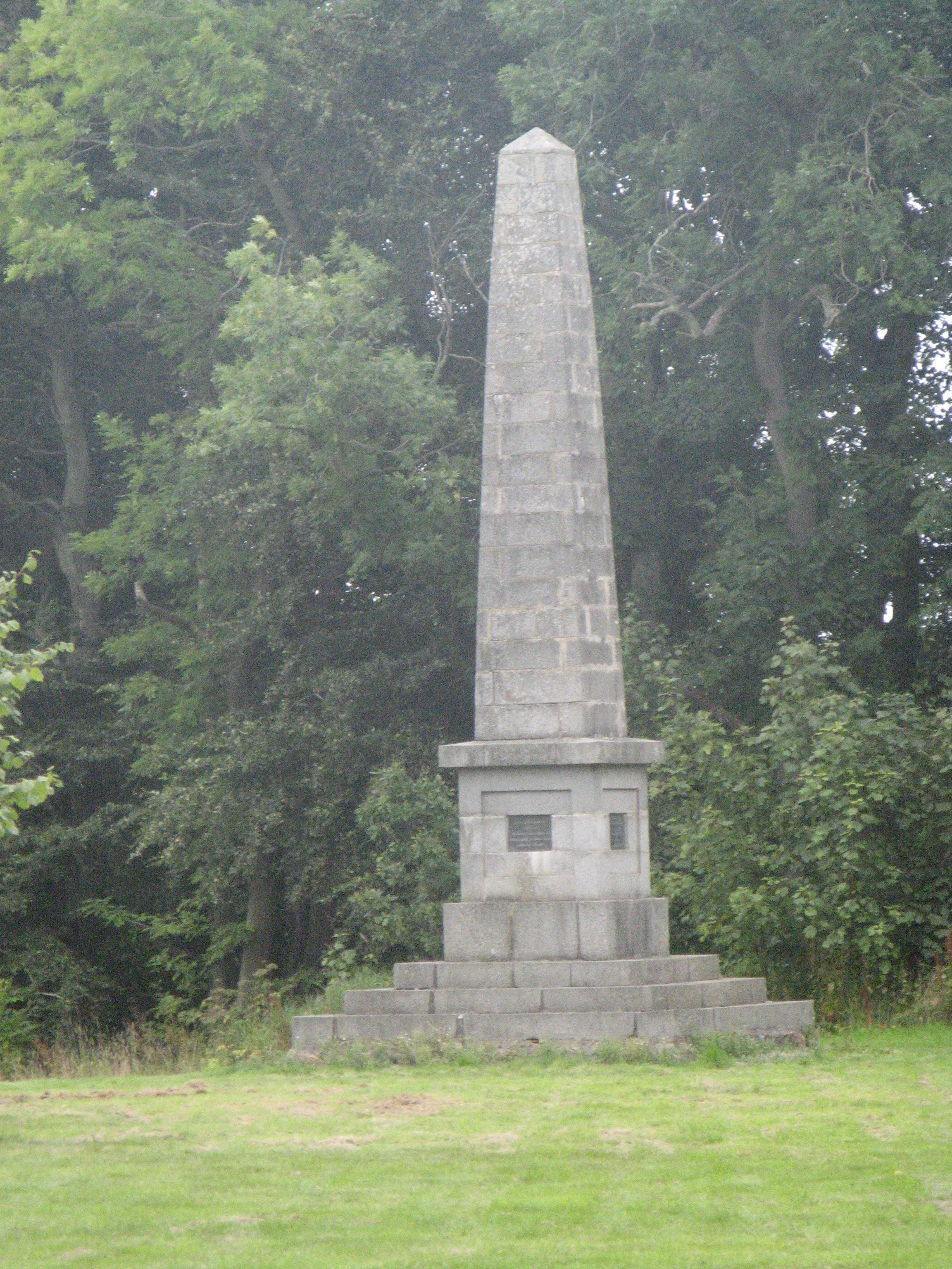 Monument at Crimonmogate House, Aberdeenshire, category B listed obelisk made of granite around 1821 by Charles Bannerman. In memory of Patrick Milne (d. 1820) - inscription on base